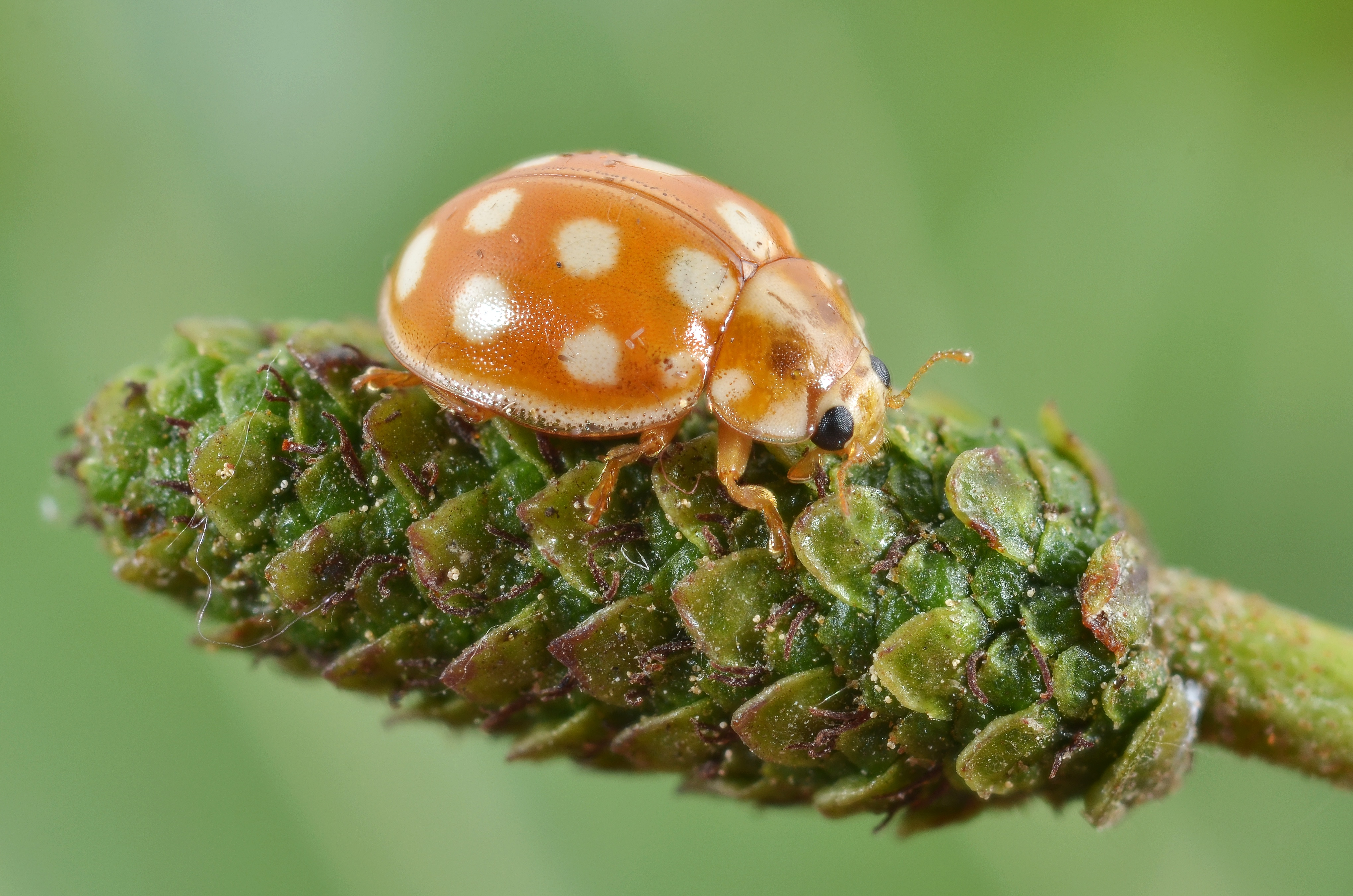 The rare ladybird Calvia quindecimguttata on an alder flower (Alnus glutinosa) Focus Stack of 4 handheld images with the micro-nikkor 60 mm on extension tubes